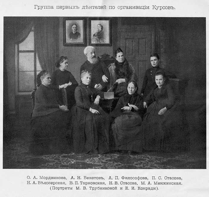 Initiators of foundation of High Female (Bestuzhev's) Courses